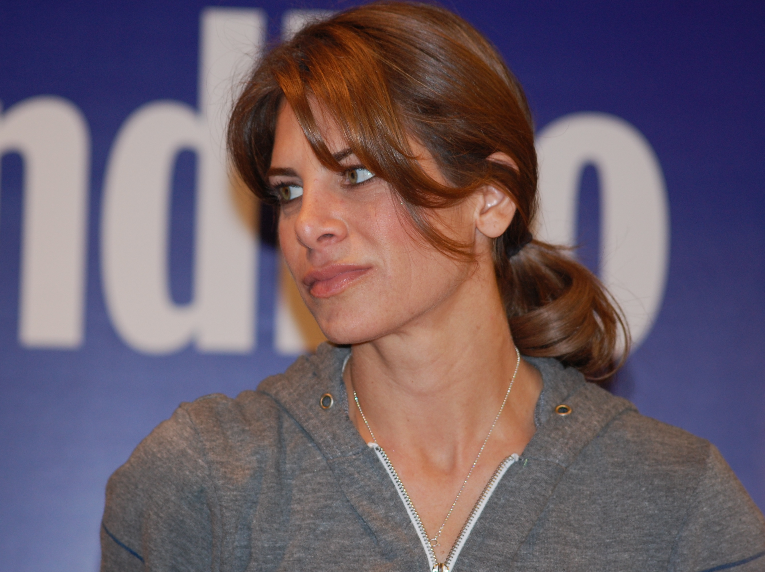 Jillian Michaels Jillian Michaels at the Unlimited' book signing @ indigo - Eaton Centre, Toronto, Canada.